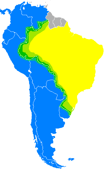 En azul, países donde el español es la lengua oficial. En amarillo, Brasil, donde el portugués es idioma oficial. En verde, zonas de incidencia de portuñol.